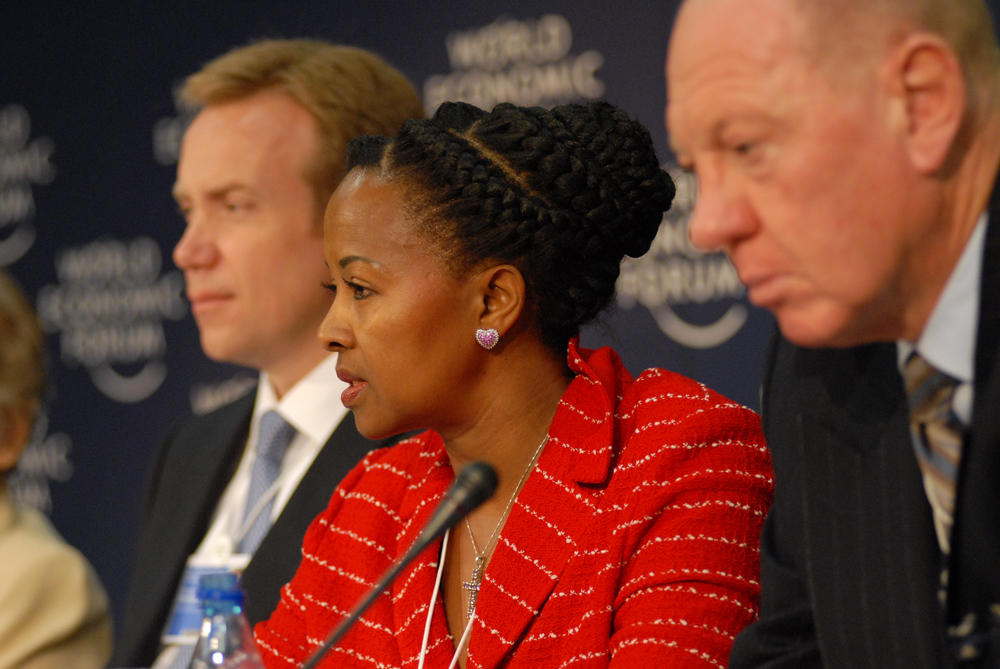 CAPE TOWN/SOUTH AFRICA, 4JUN08 - FLTR Børge Brende, Managing Director, World Economic Forum, Wendy Luhabe, Chairperson, Industrial Development Corporation, South Africa and E. Neville Isdell Chairman and Chief Executive Officer, The Coca-Cola Company, USA, captured during the Opening Press Conference of the World Economic Forum on Africa 2008 in Cape Town, South Africa, June 4, 2008. Copyright World Economic Forum ( Miller, [mailto: ]